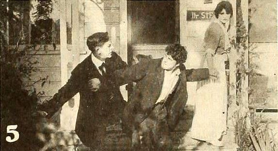 Still from the American film In the Sunlight (1915) with Harry von Meter, David Lythgoe, and Vivian Rich, on page 7 of the March 20, 1915 Reel Life magazine. The magazine on this page had numbered stills from several films. From the plot of the film, the confrontation between the von Meter and Lythgoe characters takes place near the end of the film.